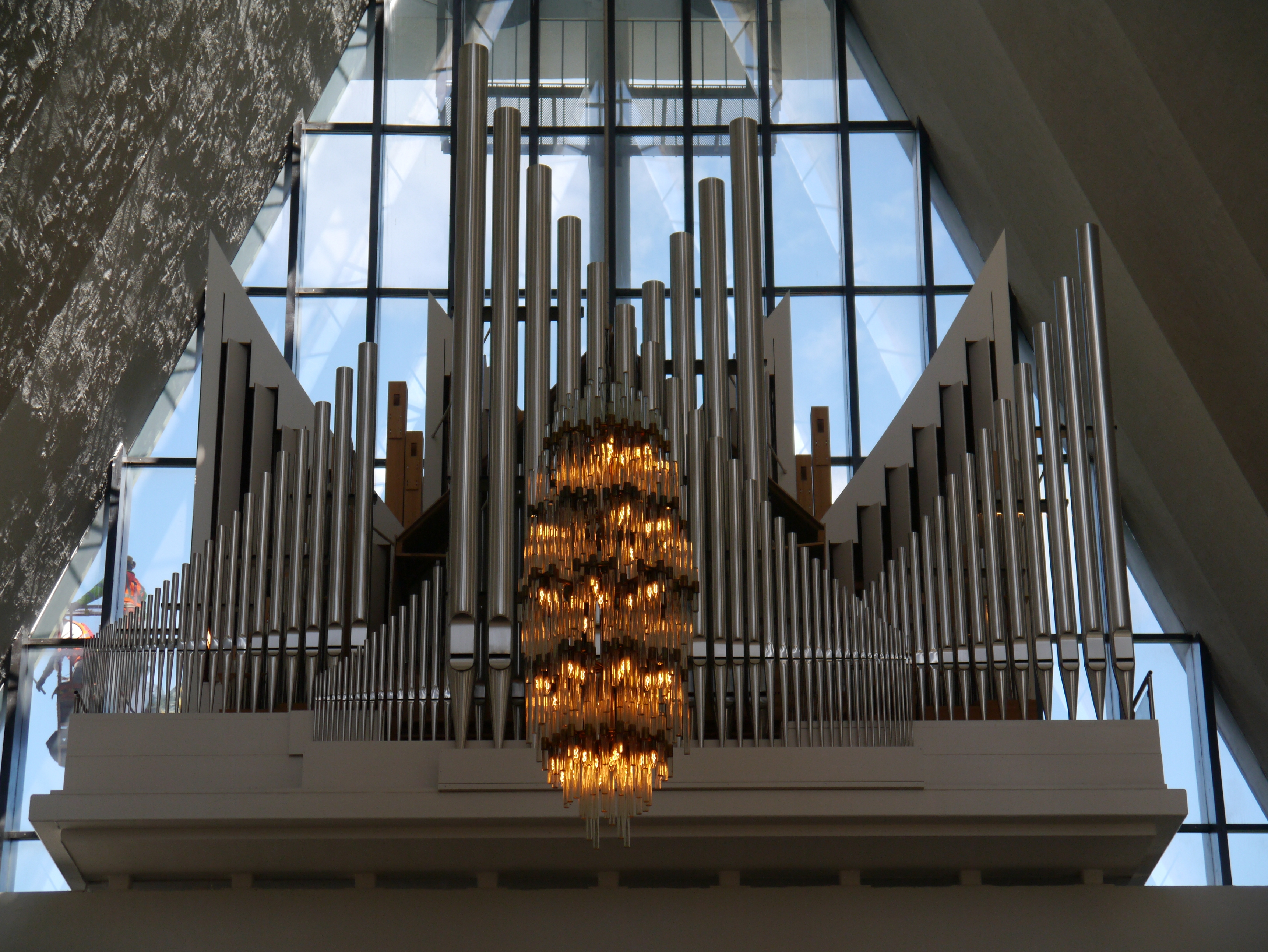 Organ of the Arctic Cathedral, Tromsö, Troms Province, Northern Norway